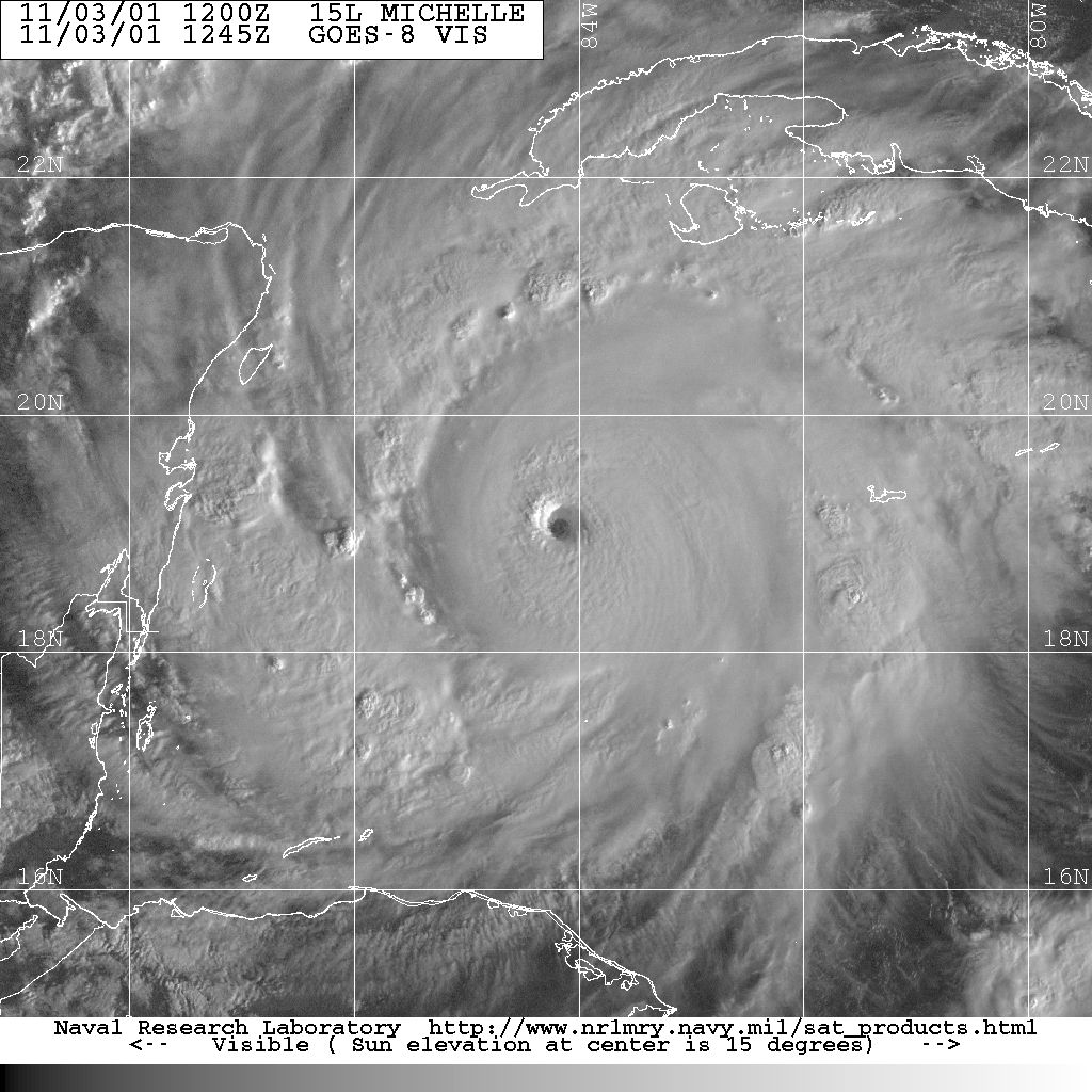 GOES-8 visible image of Hurricane Michelle at 1245 UTC 3 November.